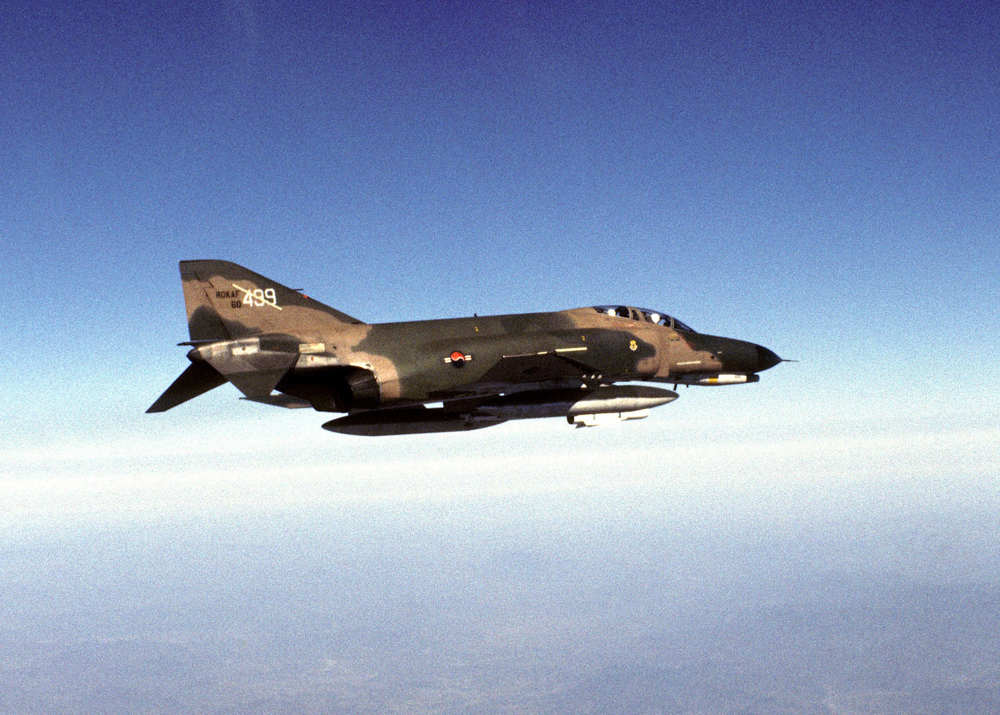 An a Republic of Korea Air Force McDonnell Douglas F-4E-64-MC Phantom II (USAF s/n 76-0499) armed with an AGM-65A Maverick air-to-surface missile on 19 February 1979.